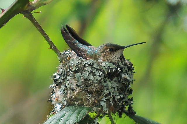 Female Selasphorus rufus sitting on two chicks.